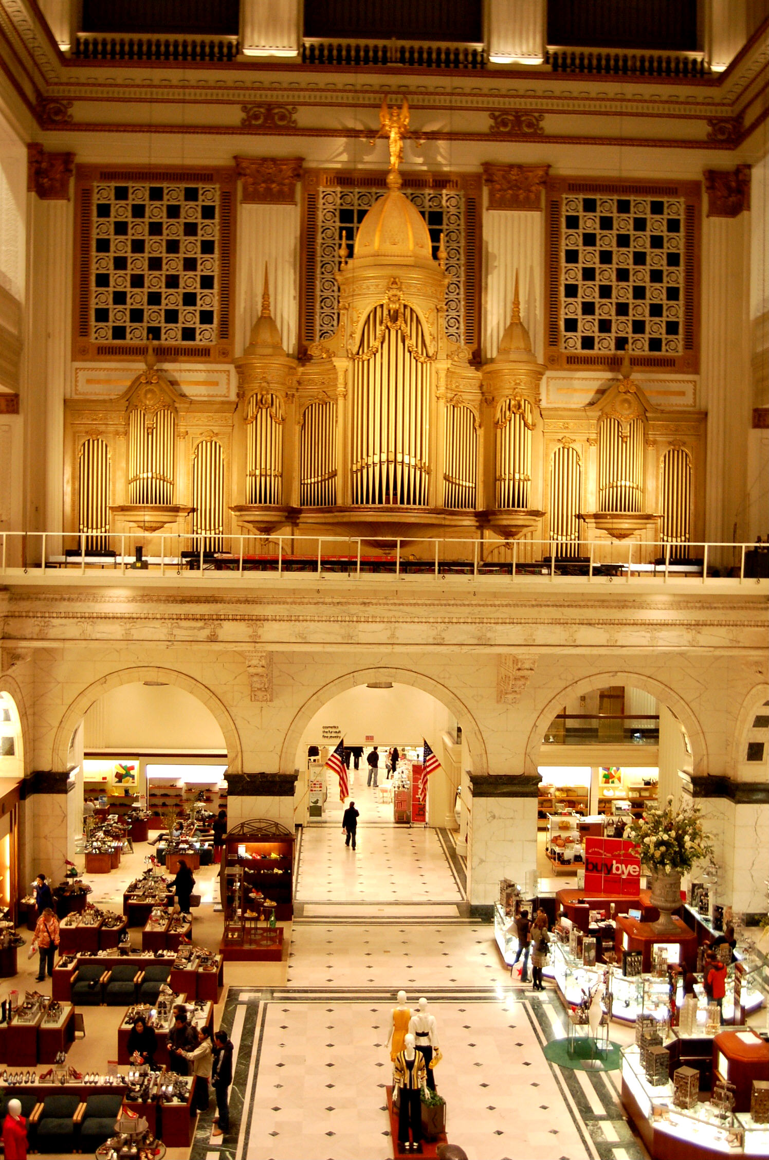 The Grand Court and Wanamaker Organ of Philadelphia Center City's Wanamaker's.